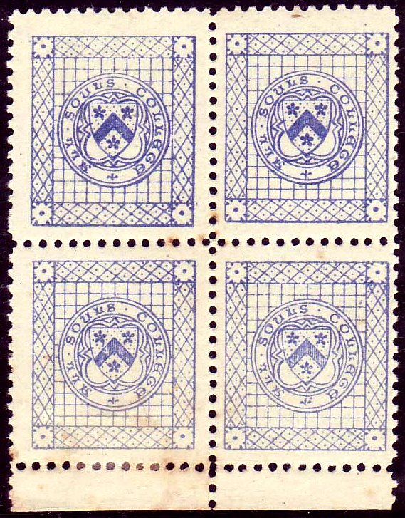 Postage stamps for items to be delivered by messengers of All Souls College, Oxford